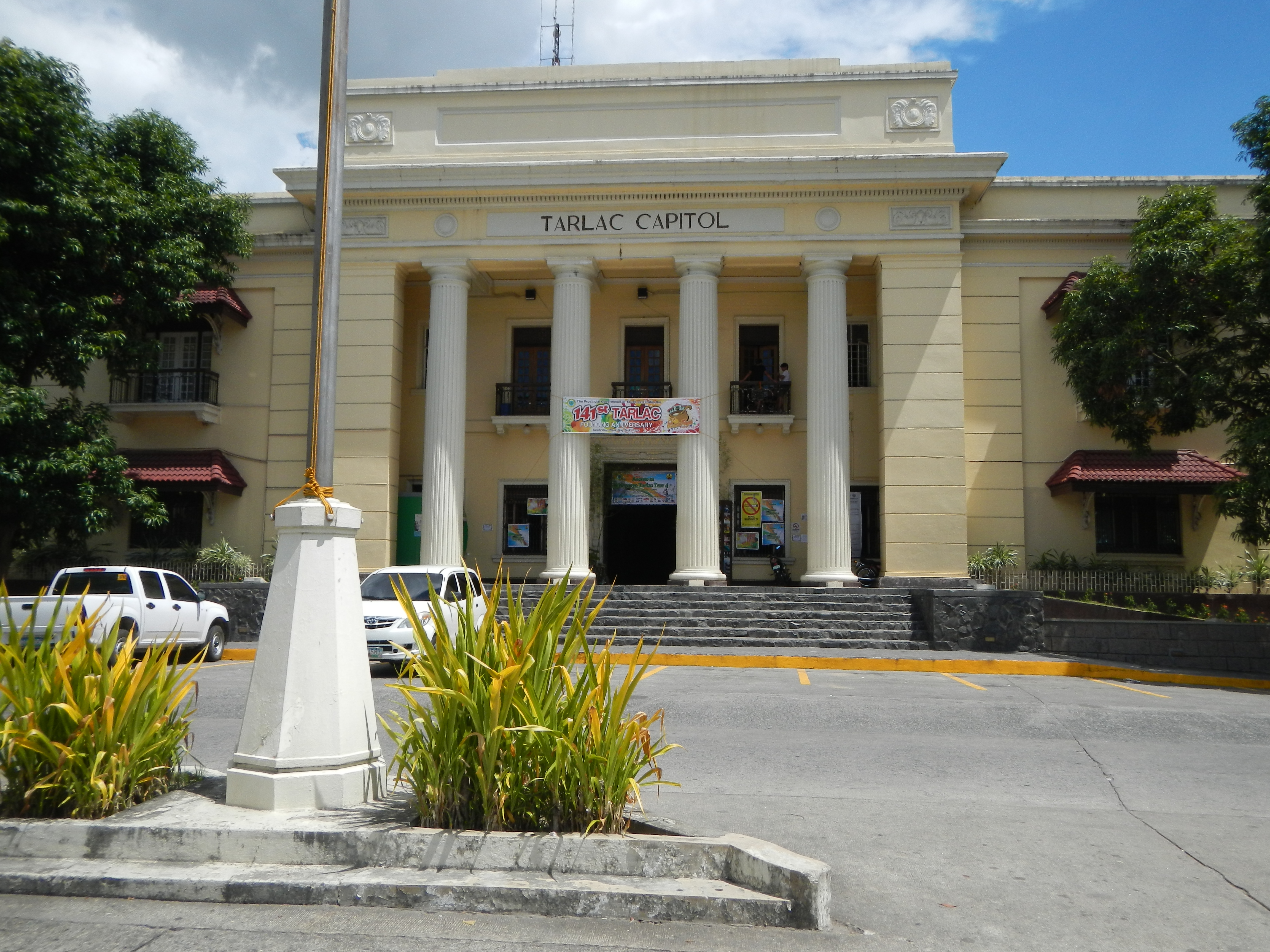 Tarlac City, Tarlac, Provincial Capitol Complex Compound, in the center is the Francisco Macabulos statue, monuent [1] Maria Cristina Park, 2300 Tarlac City, Tarlac Tarlac Provincial Capitol of Tarlac (Tarlac City) capitol building Office of the Governor [2] Sanguniang panlalawigan Engineering office Planning office Treasurers office PSWDO PDCC office, along Romulo Boulevard).